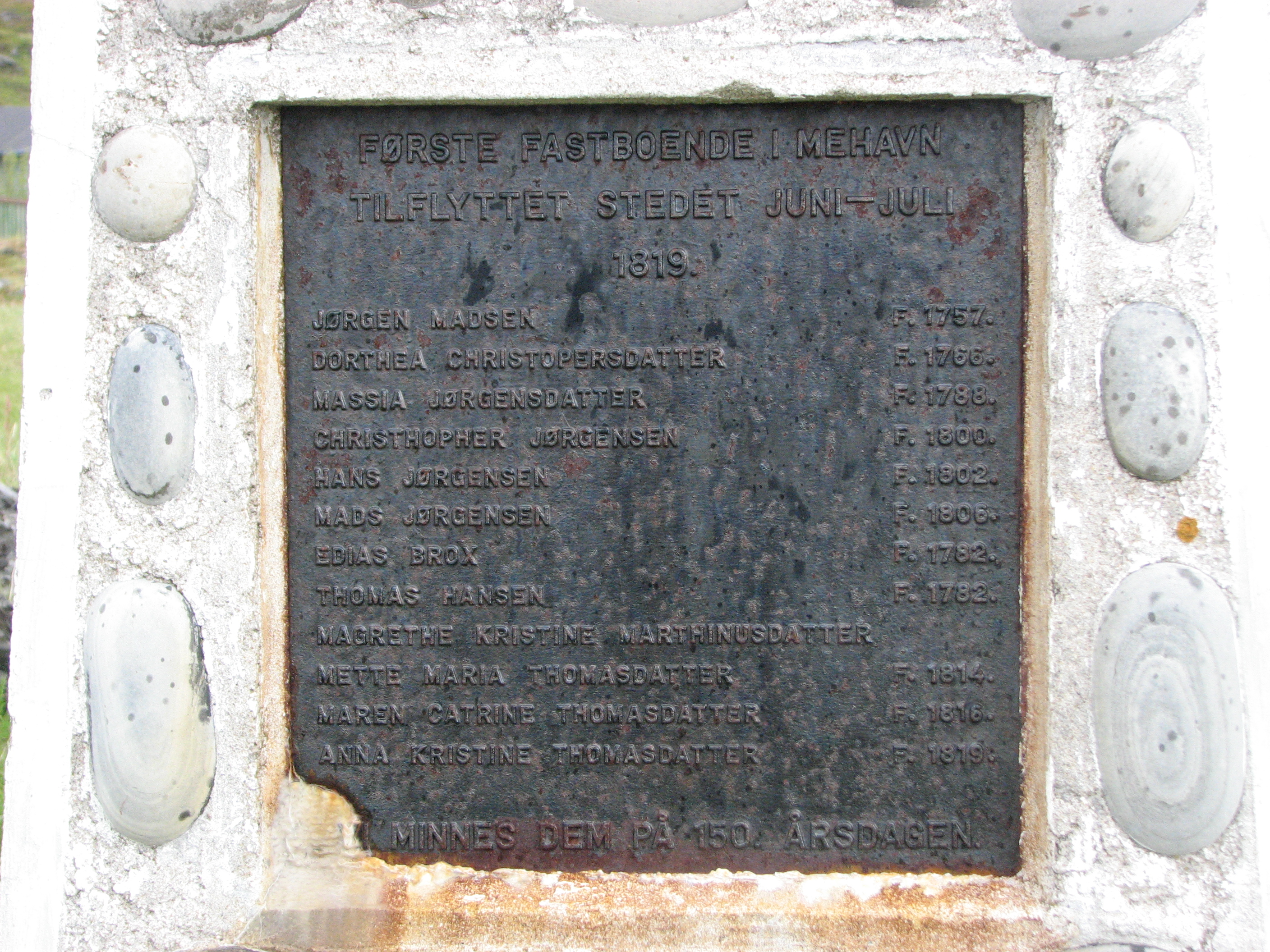 Church of Mehamn, Gamvik municipality, Norway